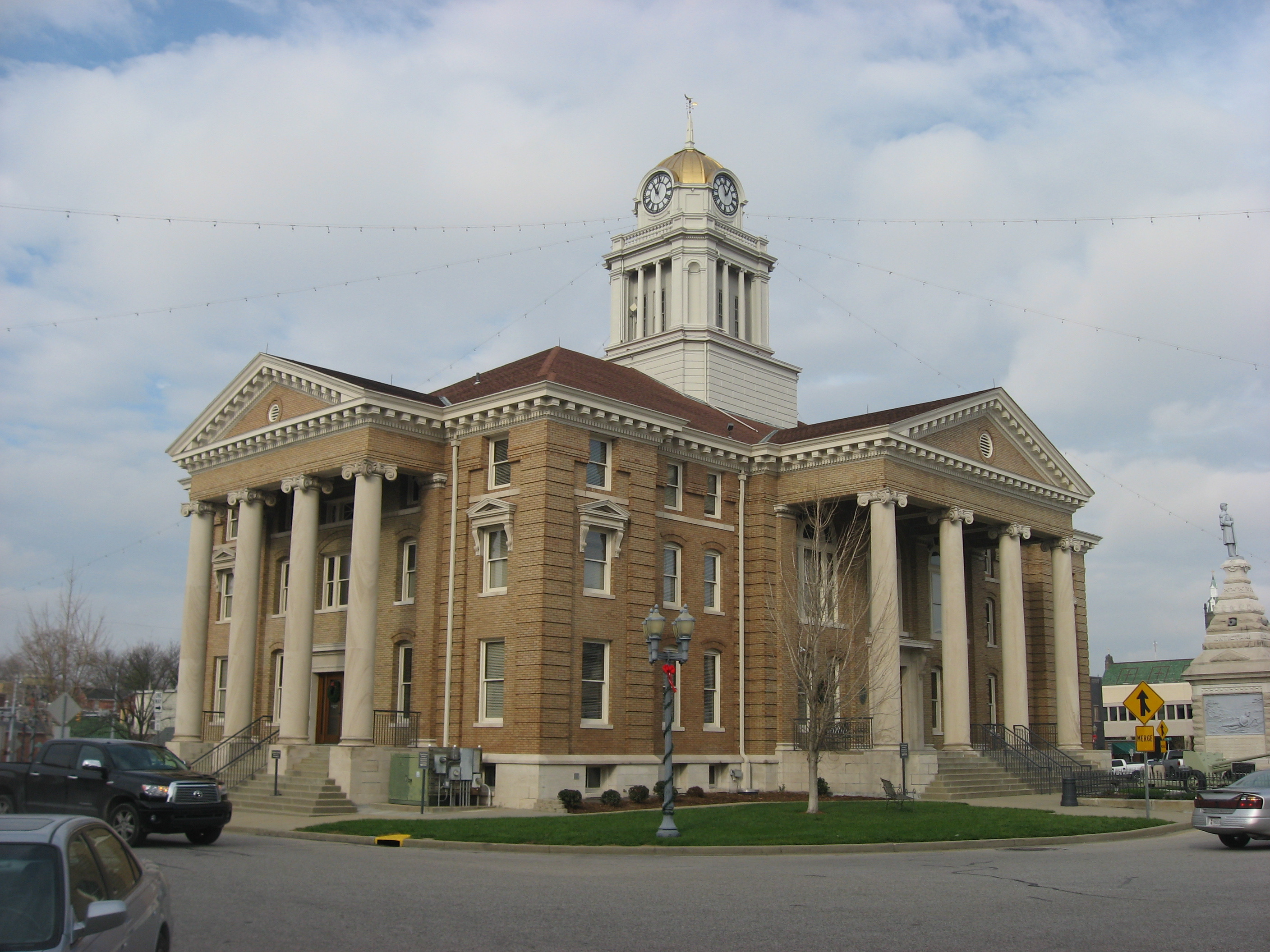 Southern and eastern sides of the Dubois County Courthouse, located on Courthouse Square in downtown Jasper, Indiana, United States. Built between 1909-1911, it is listed on the National Register of Historic Places.